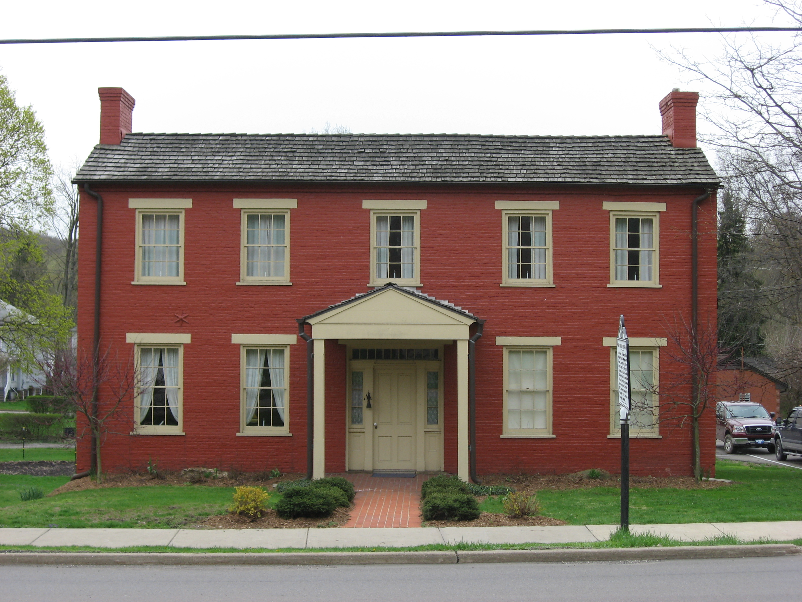 Front of the Delta Tau Delta Founders House, located at 211 Main Street (West Virginia Route 67) in downtown Bethany, West Virginia, United States. Built in 1855, it is listed on the National Register of Historic Places, and it is part of a Register-listed historic district, the Bethany Historic District.